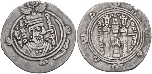 Dābūyid Ispahbads of Tabaristan. Dād-būrzmihr|. PYE 79-88 / AH 110-122 / AD 730-739. AR Hemidrachm (24mm, 1.87 g, 11h). Dated PYE 86 (AH 120 / AD 772). Crowned Sasanian-style bust right; “May xvarrah increase” in Pahlavi behind, “Dād-būrzmihr” in Pahlavi before; open double circle border with star-in-crescent motif at 3, 6, and 9 o’clock and “excellent” in 2nd quarter of margin / Fire altar with attendants flanking; star and crescent flanking flames, date to left, mint to right; triple circle border with alternating star-in-crescent and triple pellet motifs. Malek 23. VF, toned. Scarce.